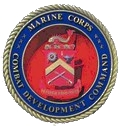 U.S. Marine Corps Combat Development Command (MCCDC) Seal